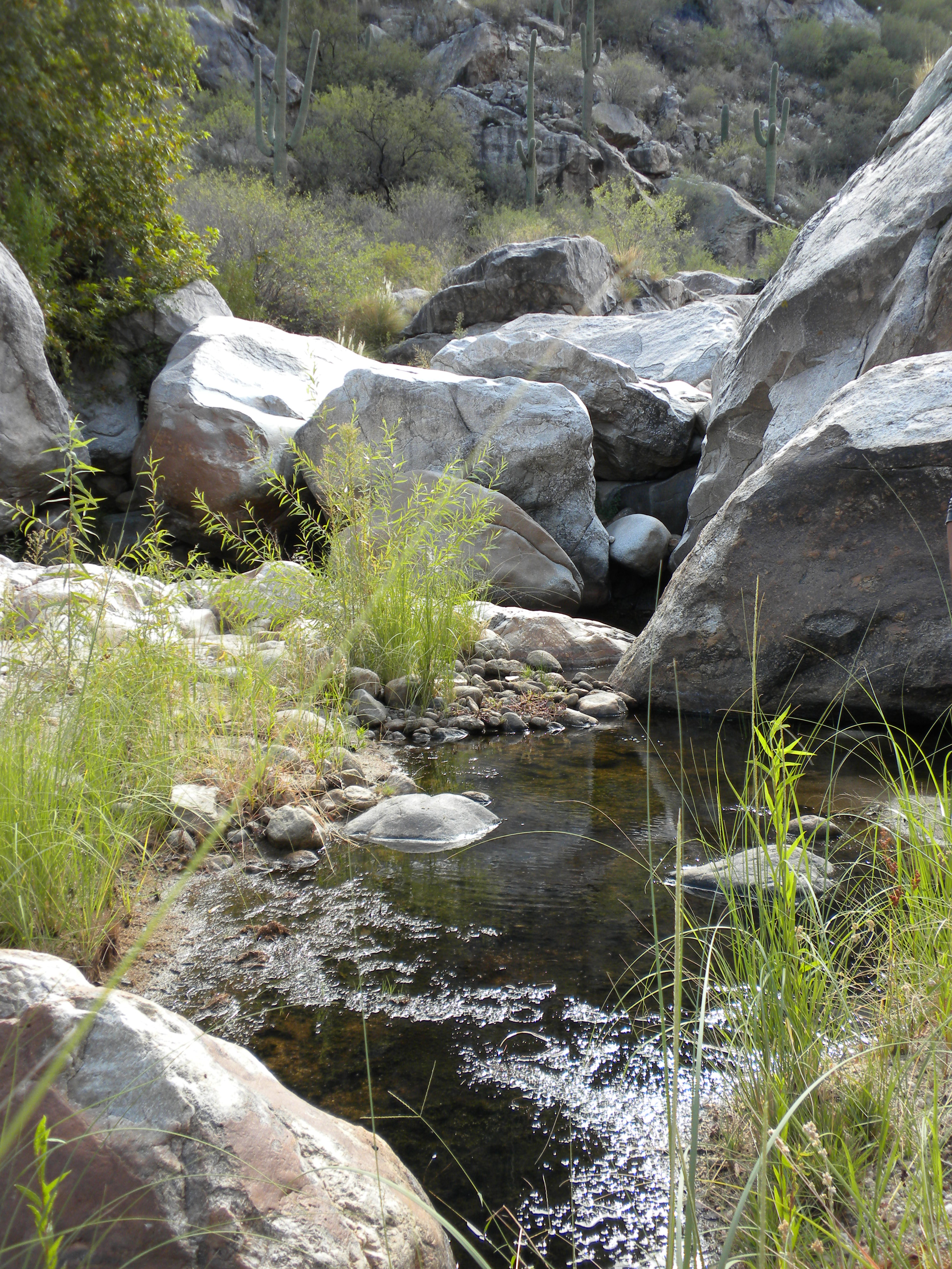 Fish pond at Santa Catalina Mountain in Tucson, AZ